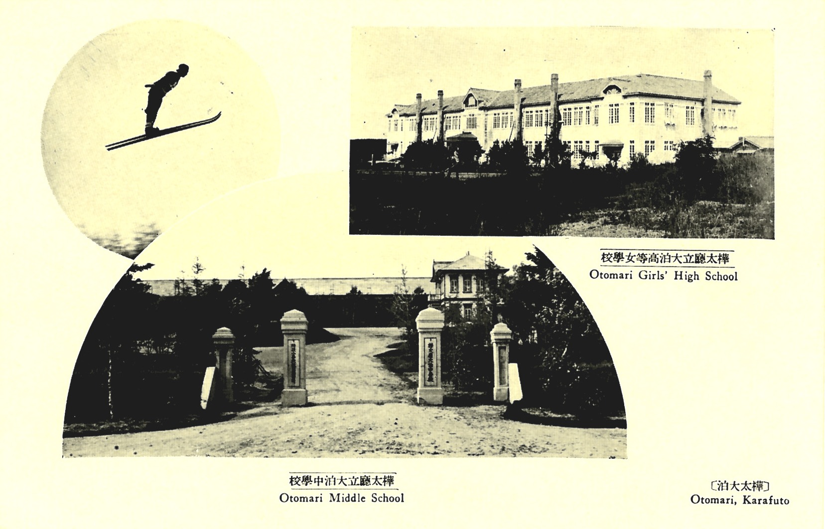 1925 Japanese postcard of two high schools of Odomari in Karafuto (now Korsakov, Sakhalin region, Russia)